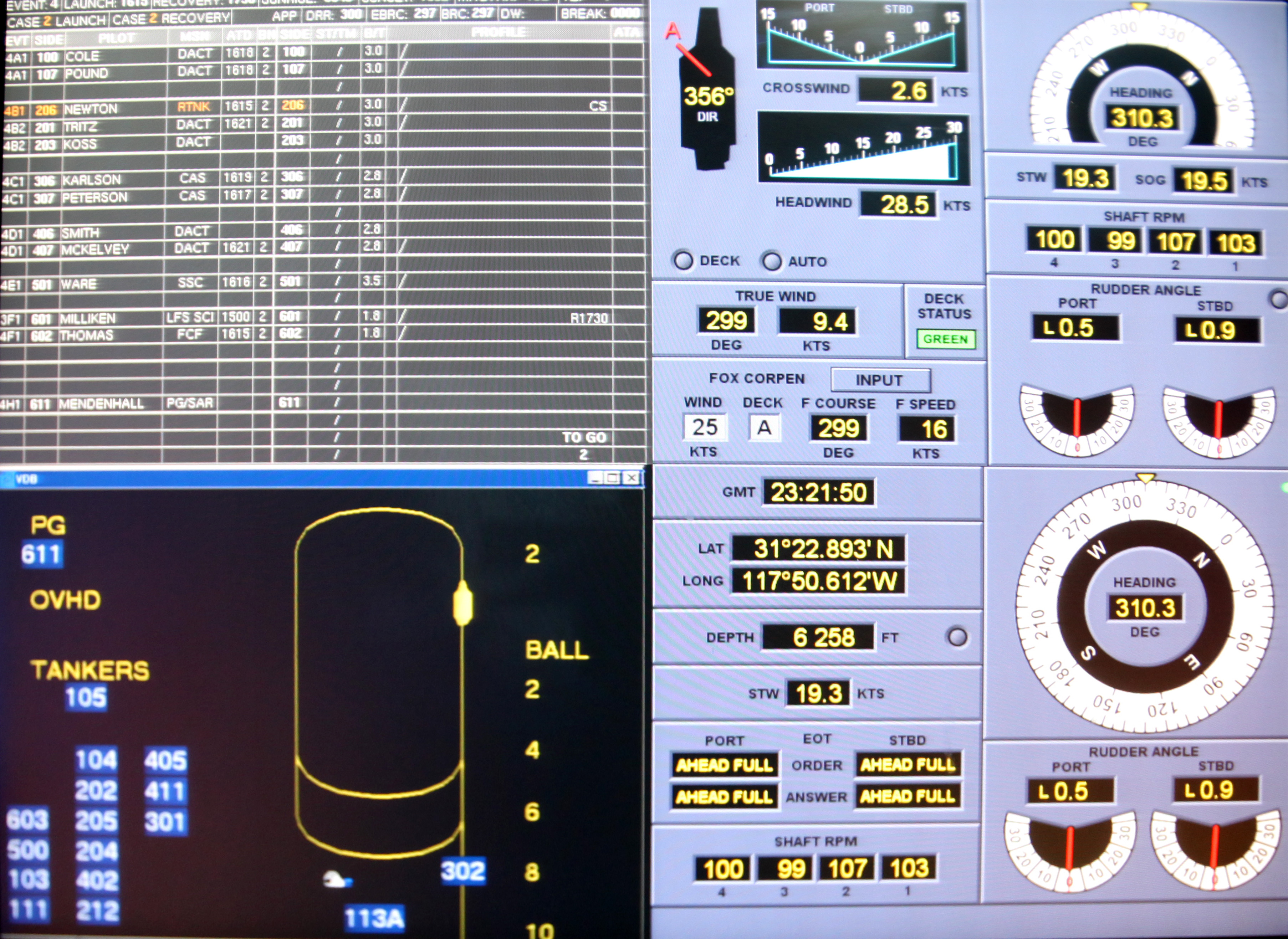 A group of bloggers embarked on the USS Nimitz on May 29 and 30. These are the pictures.